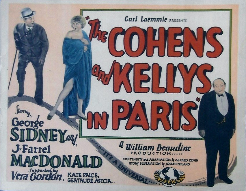 Lobby card from the American comedy film The Cohens and the Kellys in Paris (1928). Note that the name of the film shown on the lobby card (and name of this file) is slightly different from the film title.